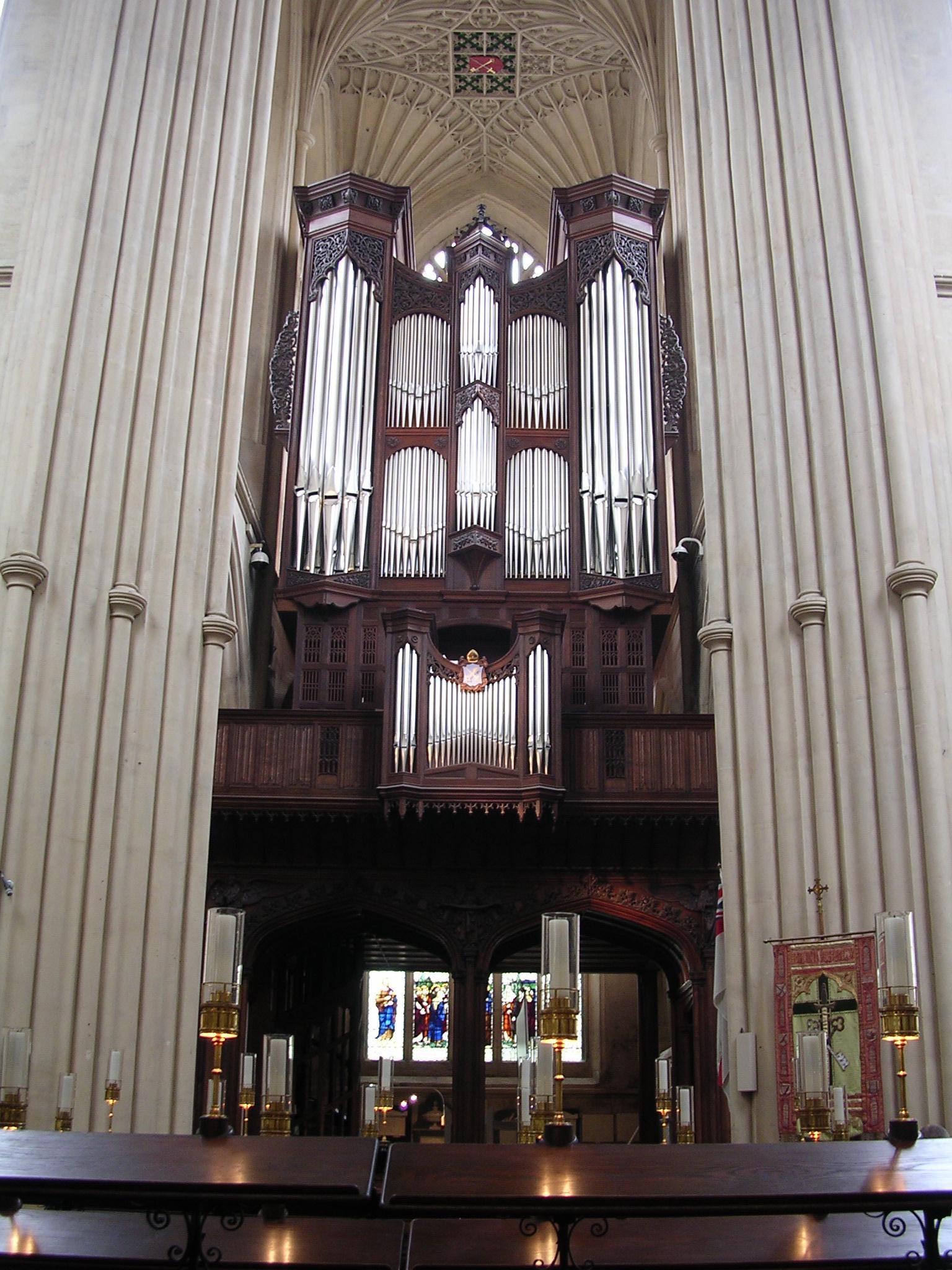 Organ of Bath Abbey.